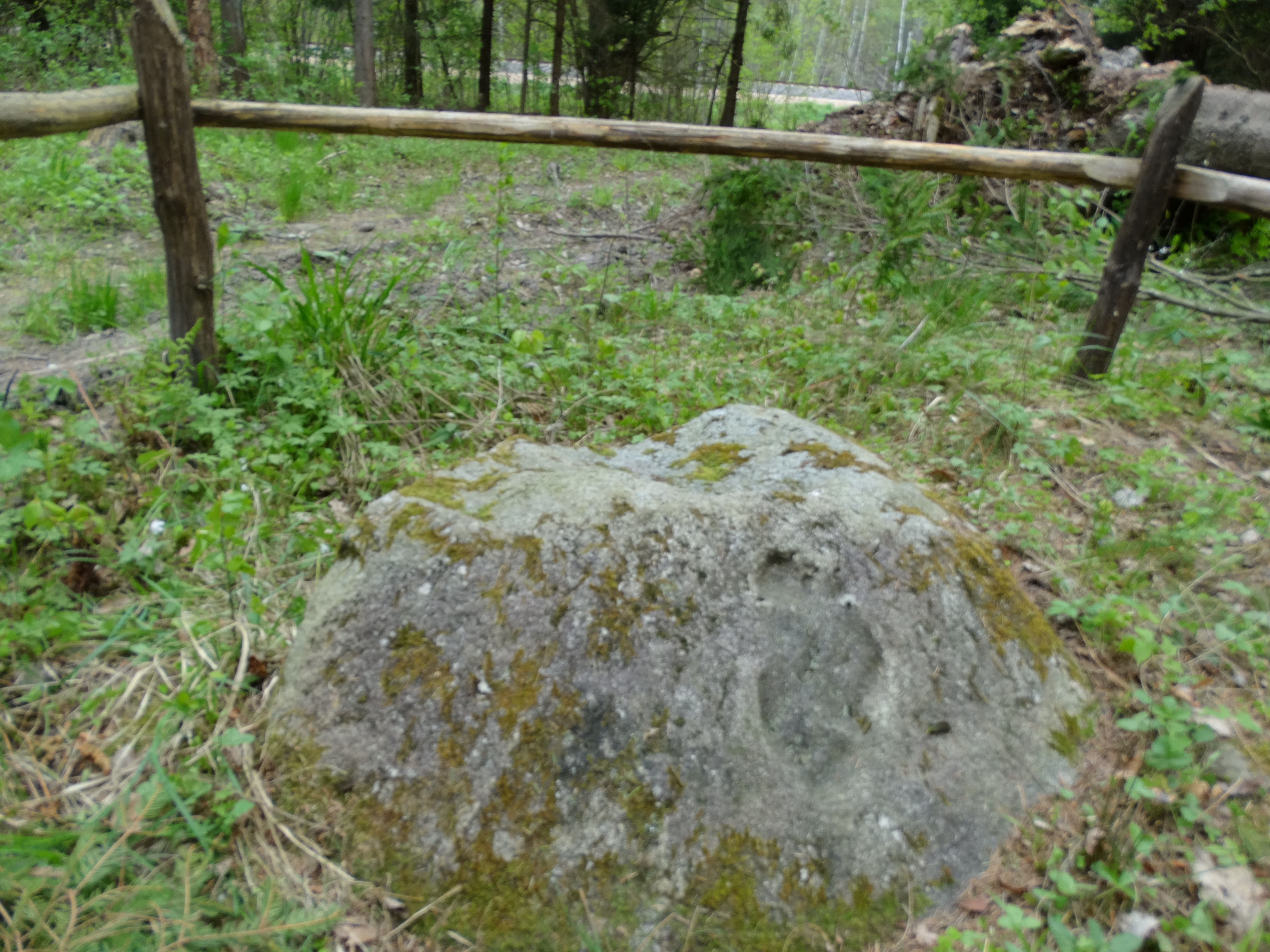 Bear's Stone, Daukliūnai, Jonava District, Lithuania